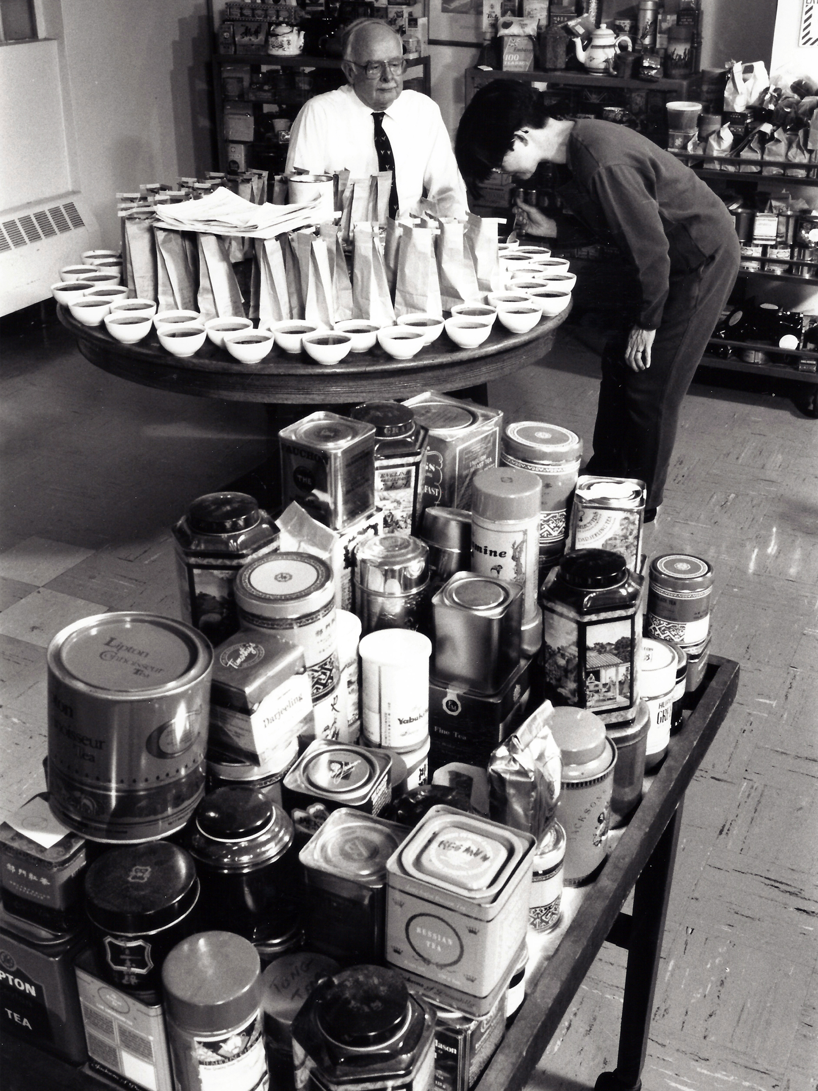 The Tea Importation Act of 1897 was enacted to improve the quality of America’s imported tea, described as “little better than hay or catnip.” Organoleptic experts at FDA sampled lots of every tea entering the country for nearly a century. FDA’s last tea taster, Robert Dick, retired soon after Congress rescinded the law in 1996. For more information about FDA history visit